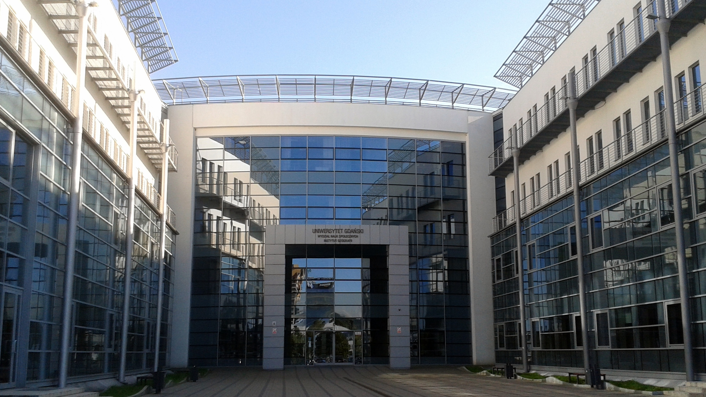 Faculty of Social Sciences of Gdańsk University, Poland